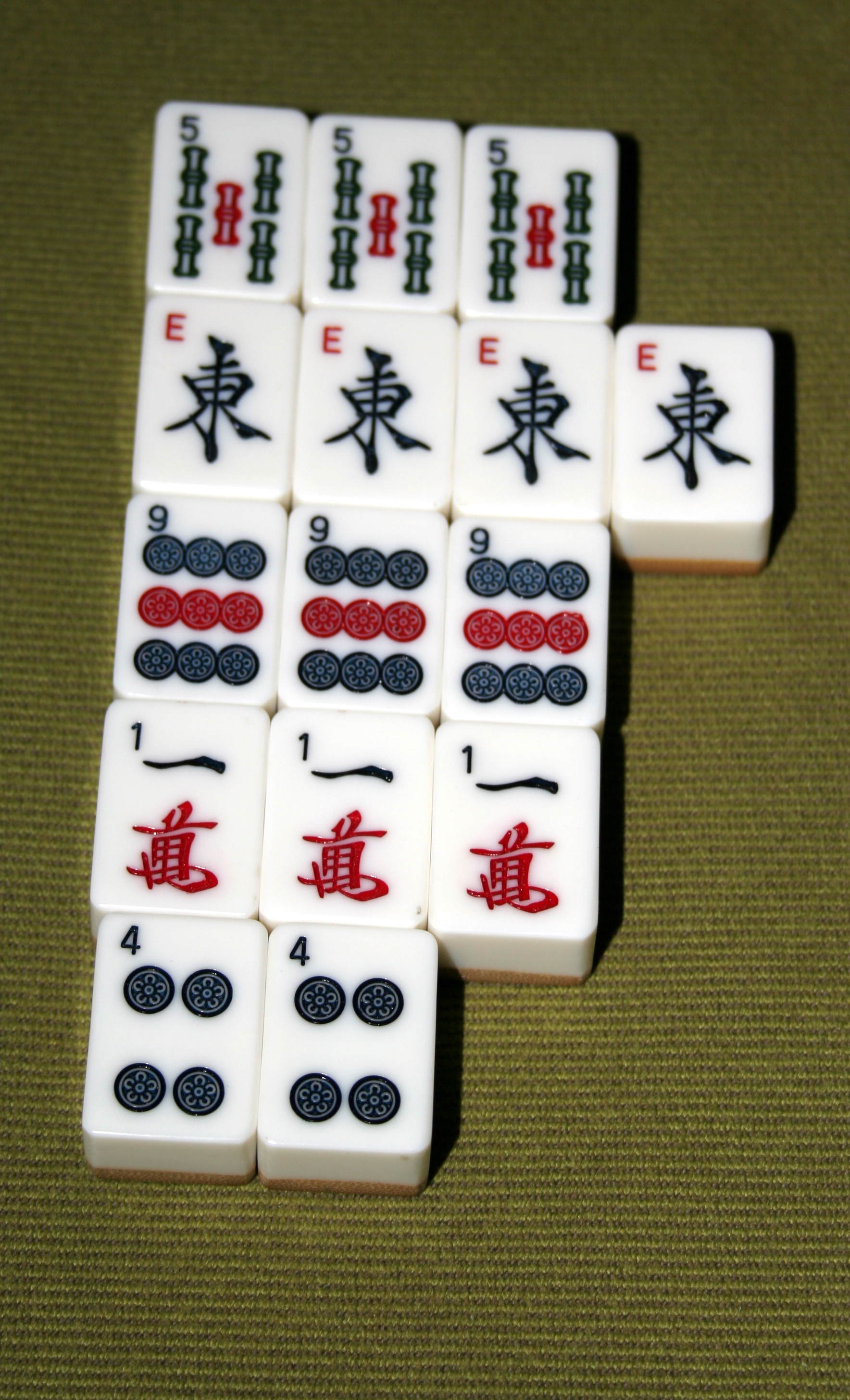 Mahjong with an exposed kong.